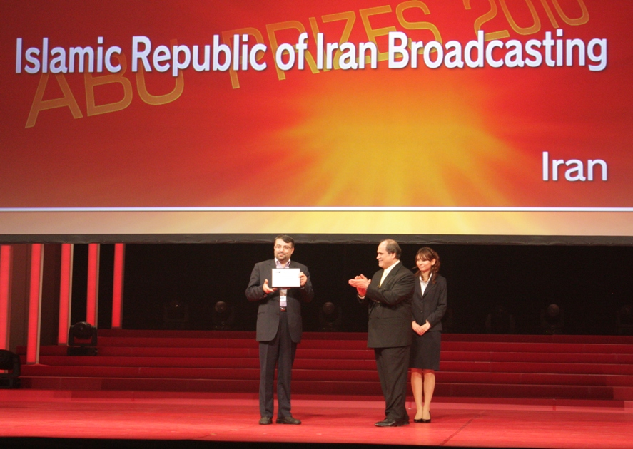 IRIB wins Dennis Anthony Memorial Award 2010